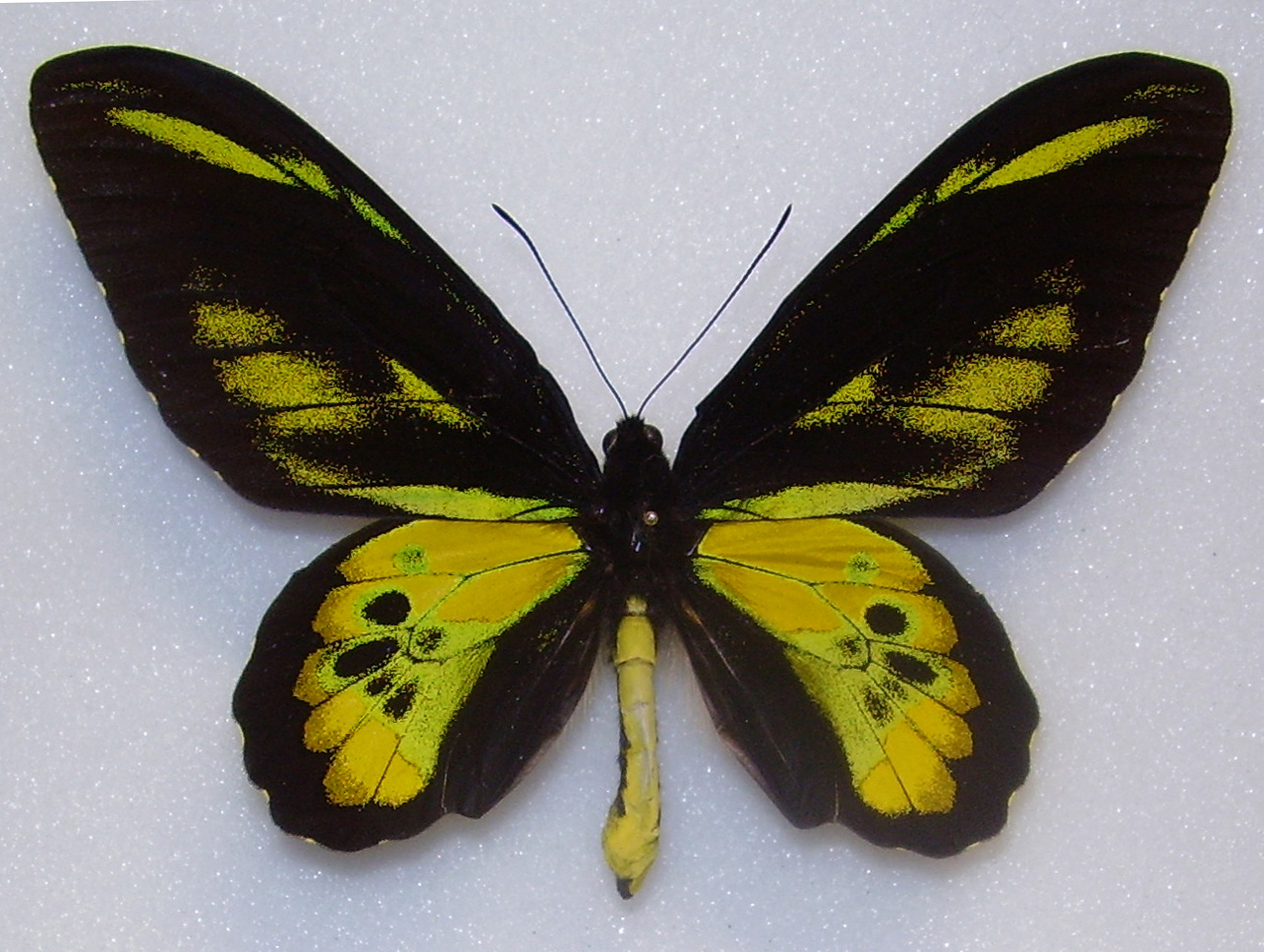 Ornithoptera rothschlidi male, upperside Arfak Papua New Guinea 4 July 1979